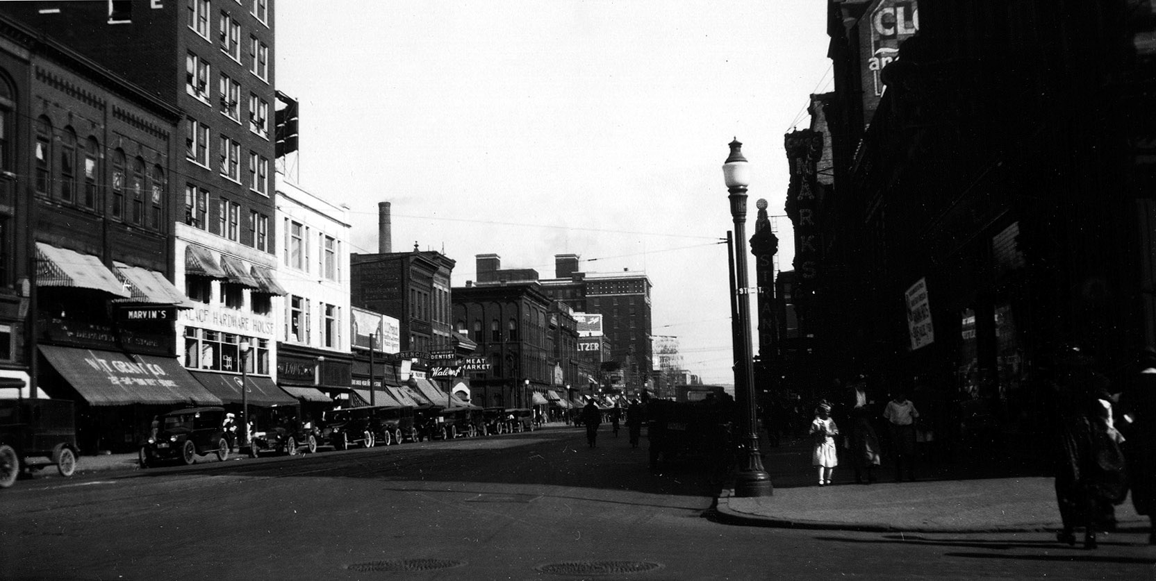 Erie, Pennsylvania in 1922.